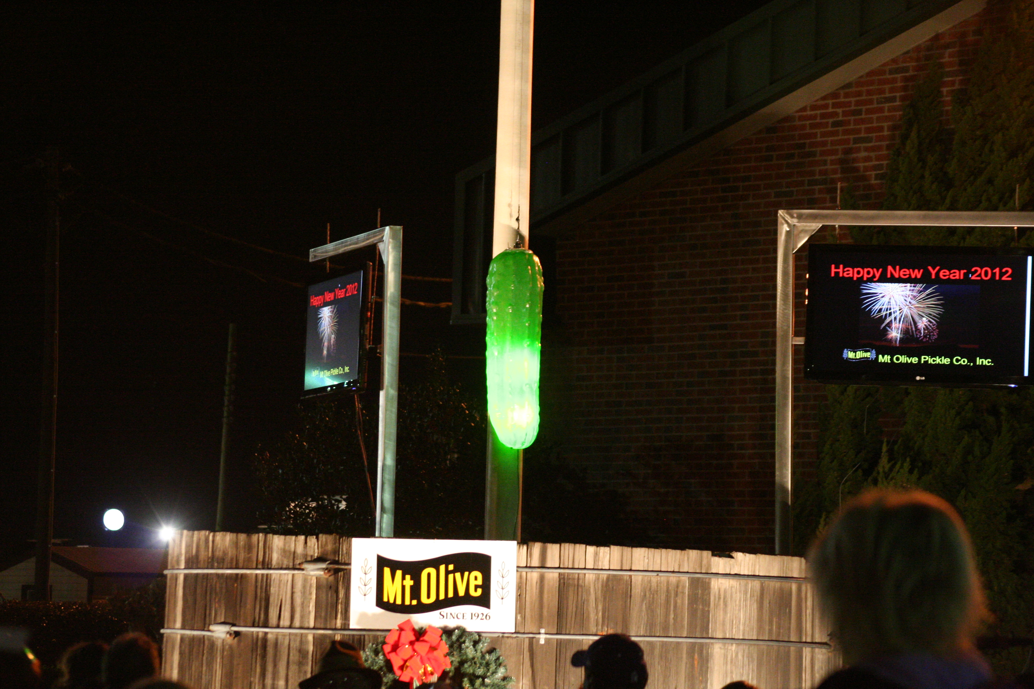 2012 edition of the Mt. Olive Pickle Drop